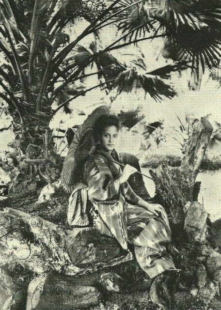 Princess Kaiulani in kimono and holding a parasol